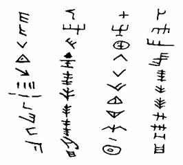 The text of the Dispilio tablet